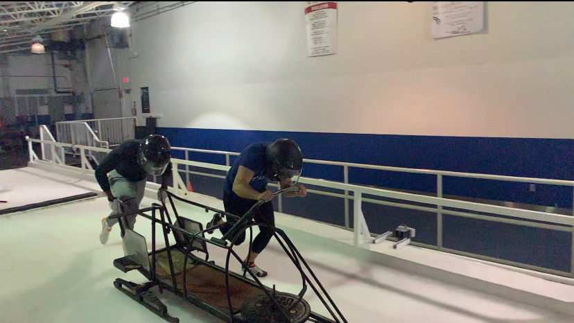 Training clip from session